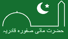 Arabic Calligraphy of word Hazrat Mai Safoora Qadiriyya